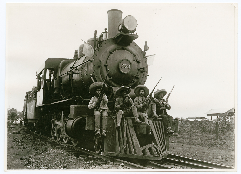 Title: [Zapatistas and Nacional de Mexico, No. 739] Creator: Brehme, Hugo Date: 1911 Part Of: Brehme photographs of Mexico Place: Cuernavaca, Morelos, Mexico Physical Description: 1 photographic print: gelatin silver; 12.2 x 17 cm File: ag1988_0700_04_locomotive_opt.jpg Rights: Please cite Southern Methodist University, Central University Libraries, DeGolyer Library when using this image file. A high-quality version of this file may be obtained for a fee by contacting . For more information and to view the image in high resolution, see: View the Mexico: Photographs, Manuscripts, and Imprints Collection